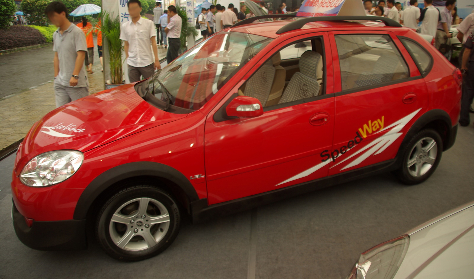 Lifan 520i LF7131A (hatchback version of 520) with 1.3 liter engine in Chongqing, 2011